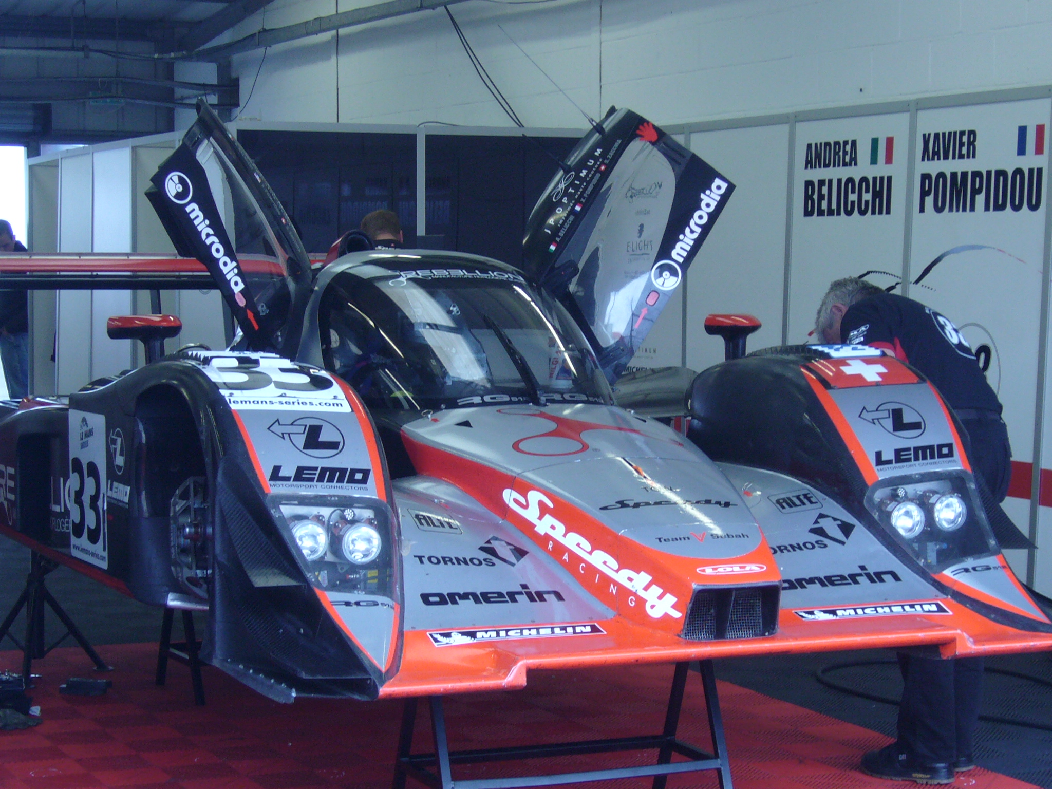 Speedy Racing Team Sebah's Lola B08/80-Judd at the 2008 1000km of Silverstone